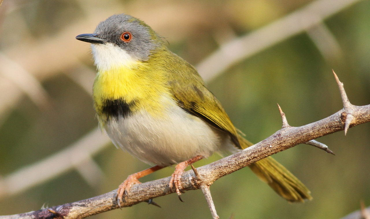 A male Yellow-breasted apalis at uMkhuze Game Reserve, kwaZulu-Natal, South Africa